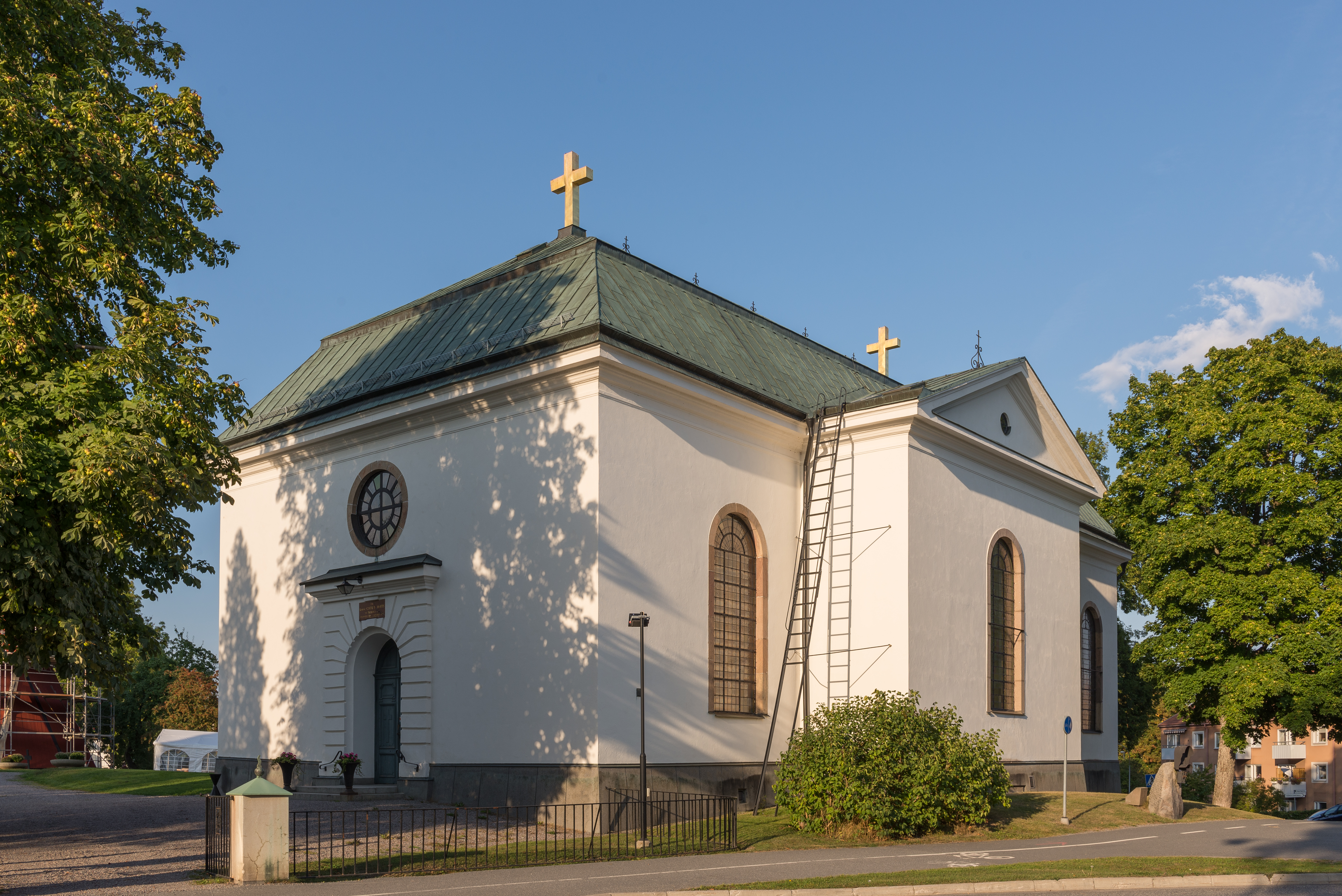 Vaxholms kyrka (church). Church of Sweden, Diocese of Stockholm, Vaxholm Parish.